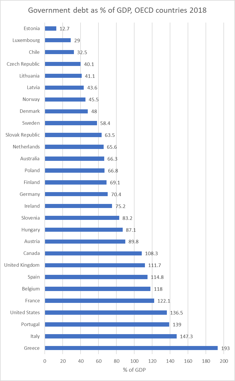 Based on data by the OECD: OECD (2019), General government debt (indicator). (Accessed on 28 November 2019)